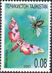 Stamps of Tajikistan